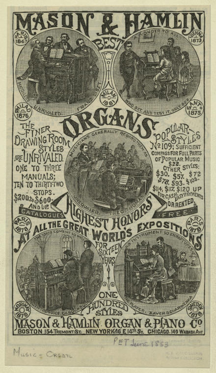 "Mason & Hamlin Organ & Piano Co ; Boston, 154 Tremont St. ; New York , 46 E. 14th St. ; Chicago, 149 Wabash Ave." Includes additional text. Written on border: "June 1883" Original Source: From The Peterson magazine. (Philadelphia : Charles J. Peterson, 1842-1898) .